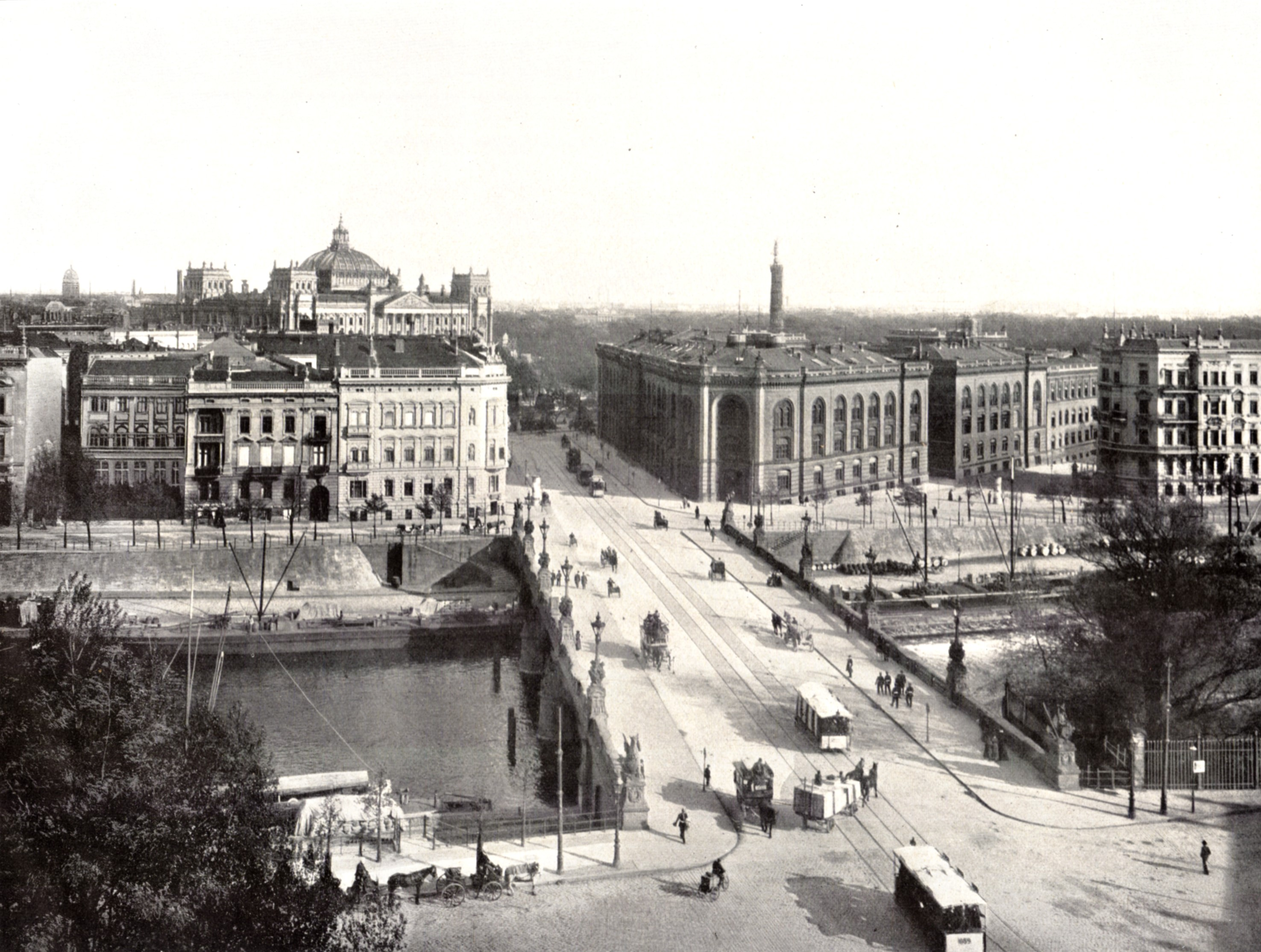 Berlin, Moltkebrücke and Generalstabsgebäude around 1900